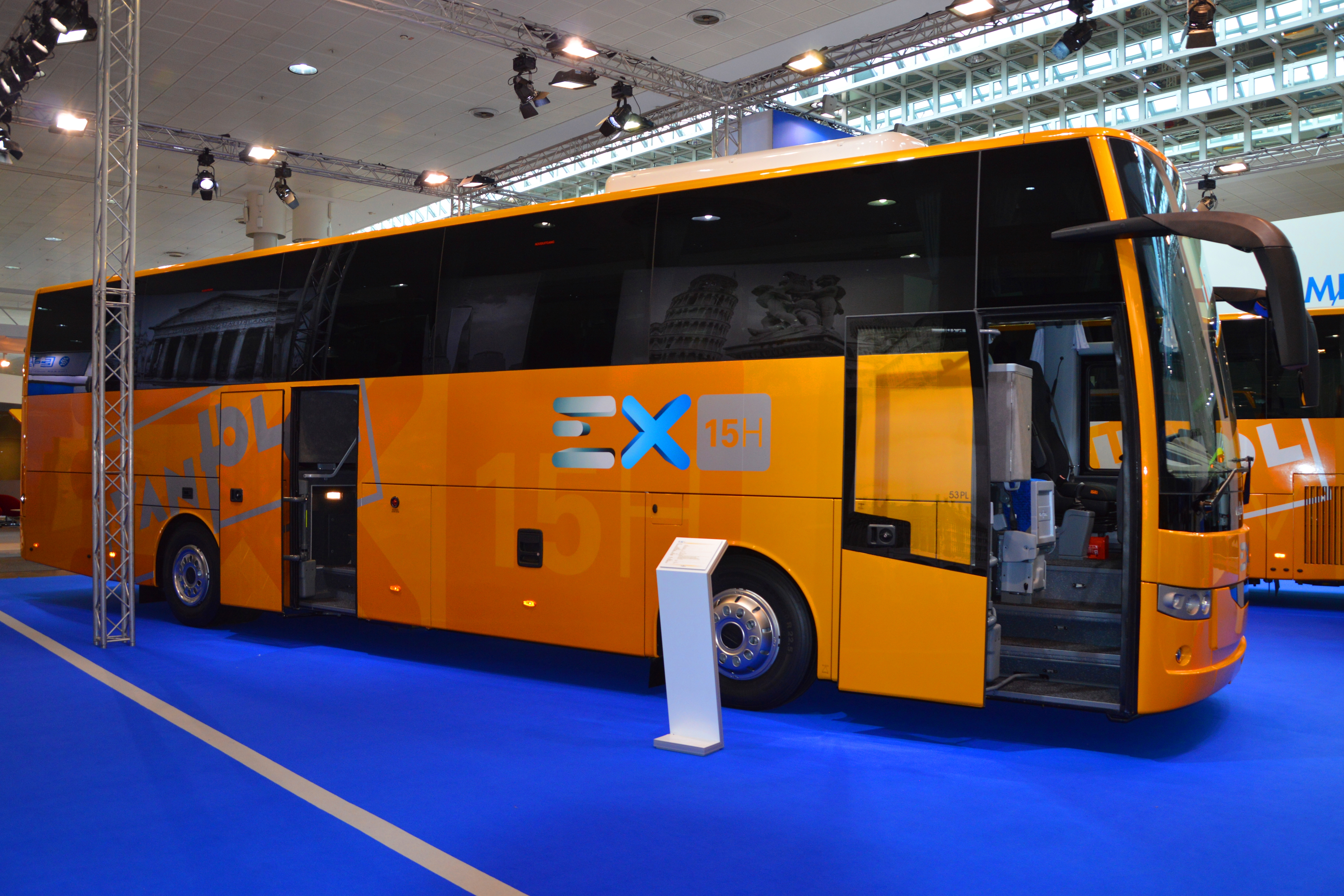 Van Hool Coach EX 15 H, produced in Macedonia. Engine: Paccar MX11 (Euro 6). Power: 290 kw (394 hp). Length: 12.48 m. Wheelbase: 6.01 m. Seats: 55+1+1